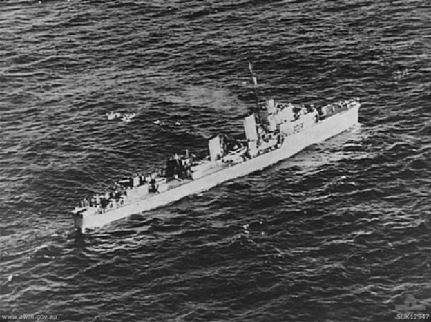 The Canadian destroyer HMCS Restigouche (H00) preparing to pick up the survivors from a German U-boat which was attacked and sunk by a RAF Short Sunderland aircraft captained by Flying Officer L. H. Baveystock DFC DFM of London (UK).